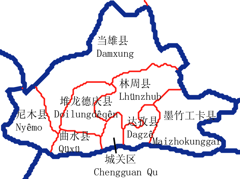 Counties in Lhasa (拉萨市), Tibet Autonomous Region of China